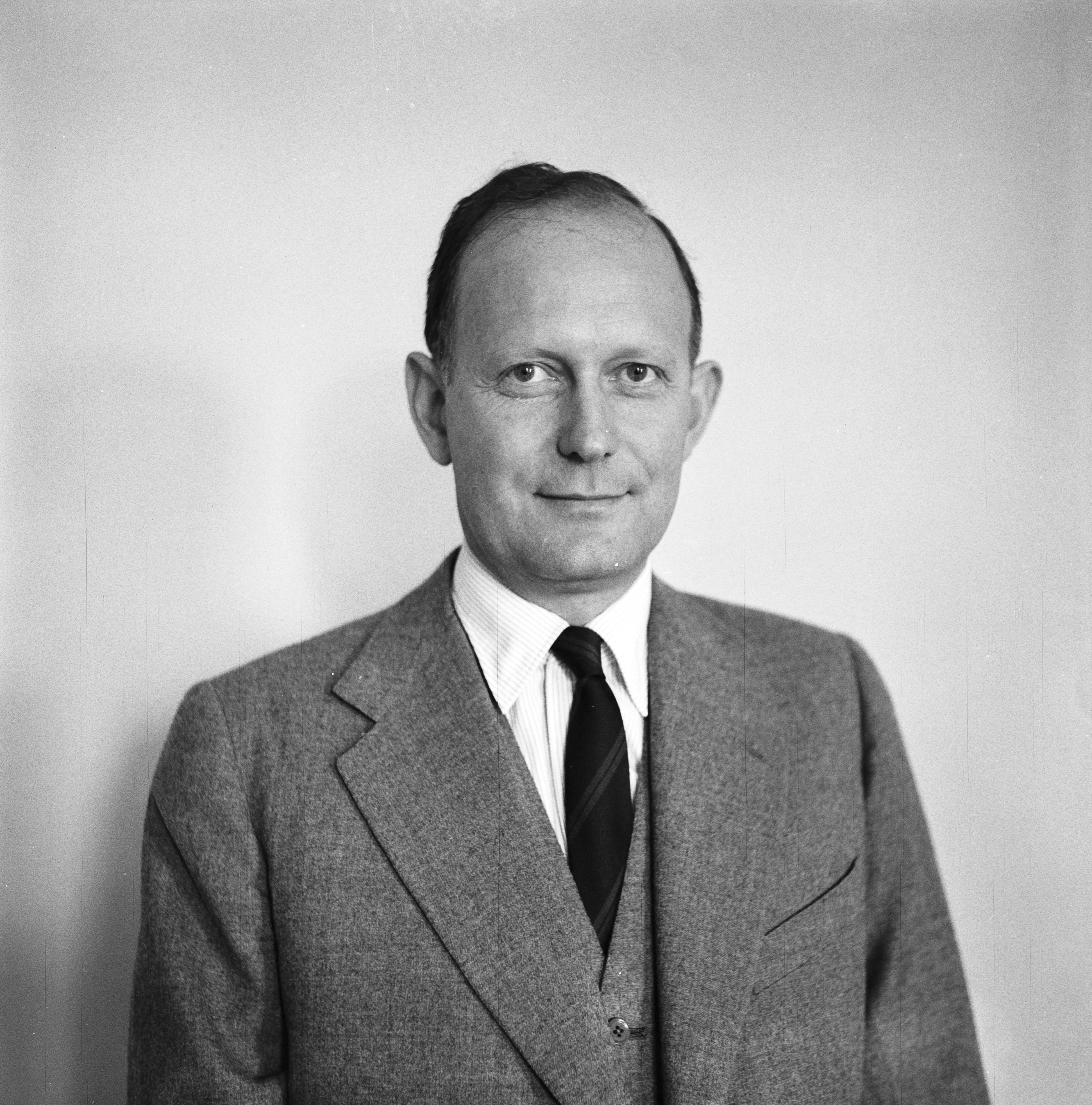 C. Douglas Dillon, U.S. Secretary of the Treasury. This picture was taken in 1955 in Dillon's capacity of Ambassador to France. The caption information for this image can be seen here, provided by Still Picture Reference Team at the National Archives and Records Administration. The identifier for this image is PAR 7117.